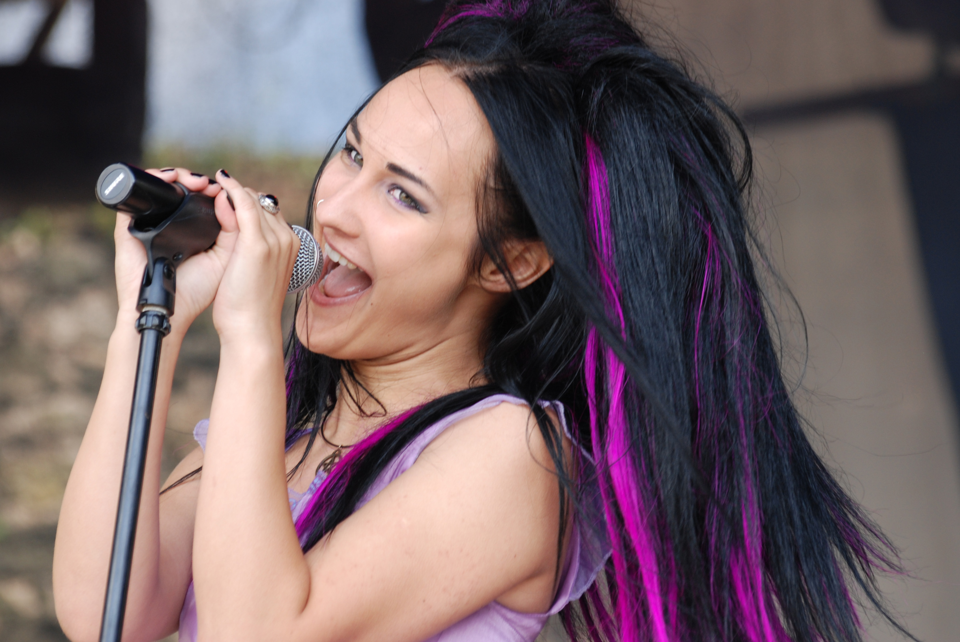 This photo was made in cooperation with CASTLE PARTY PRODUCTIONS in Bolków (webpage)